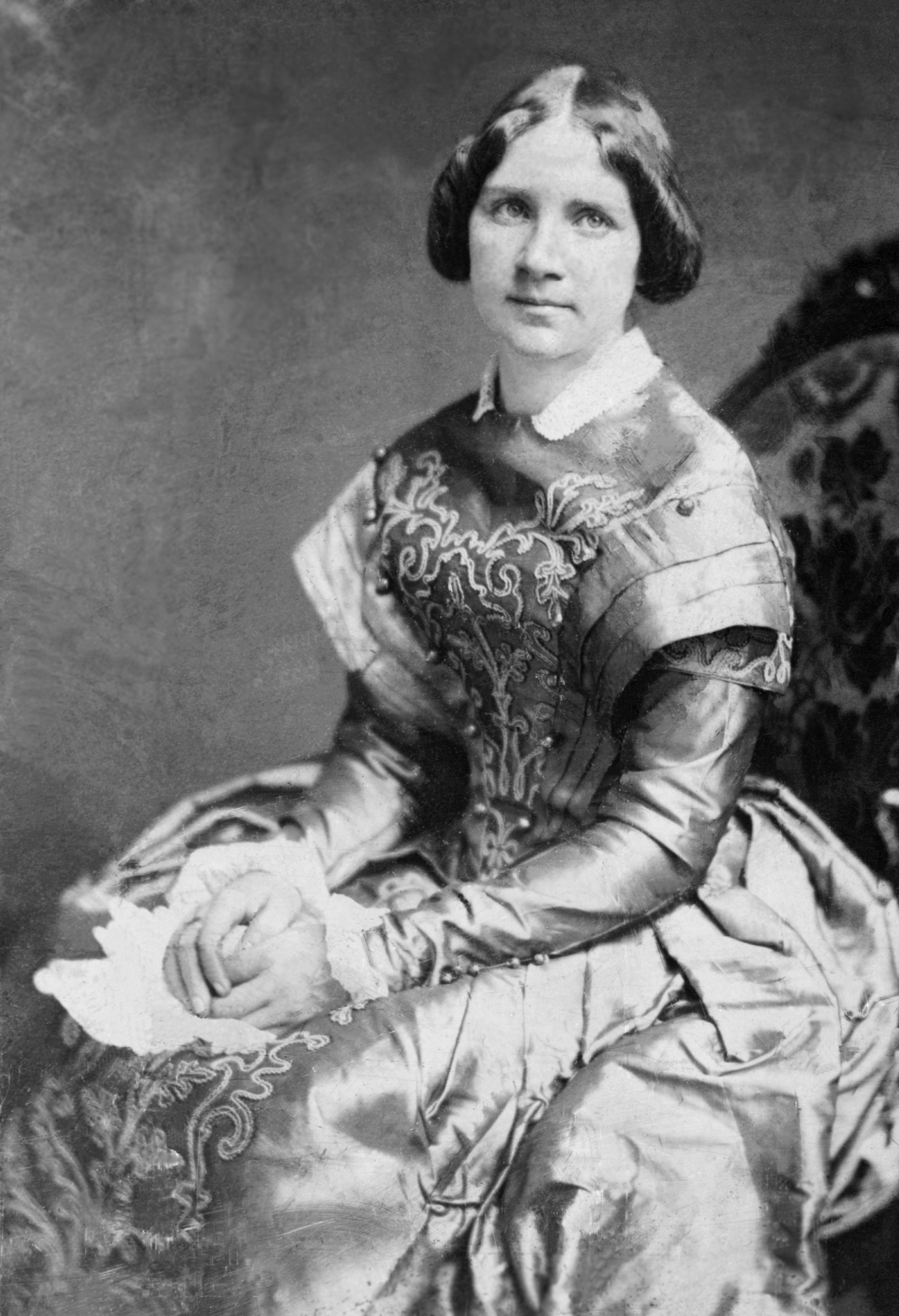 Jenny Lind, three-quarter length portrait of a woman, three-quarters to the left, facing front, seated